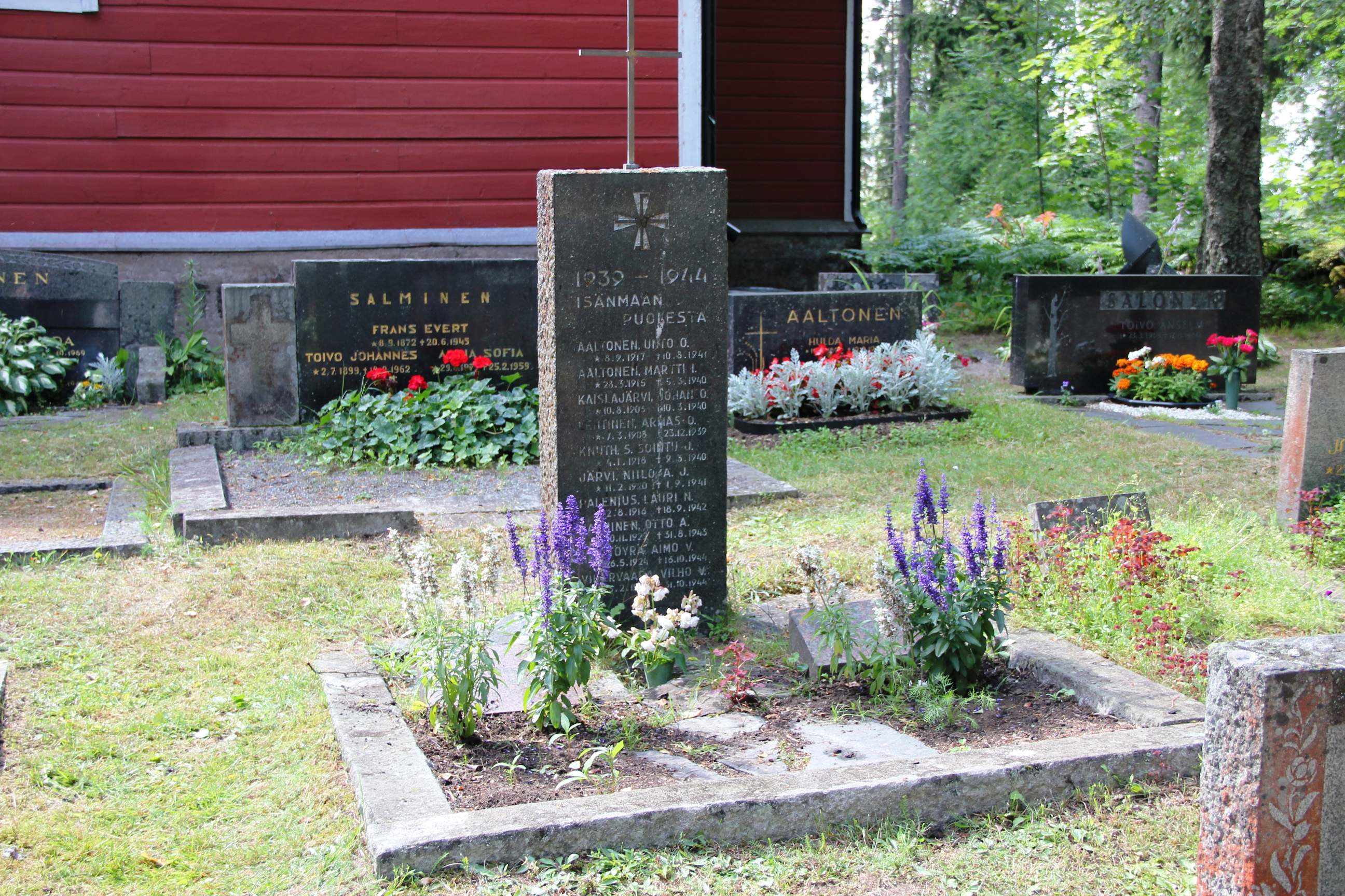 Kärkölä Church in Lohja, Finland, cemetary, soldiers' grave, the memorial designed by Ilmari Wirkkala